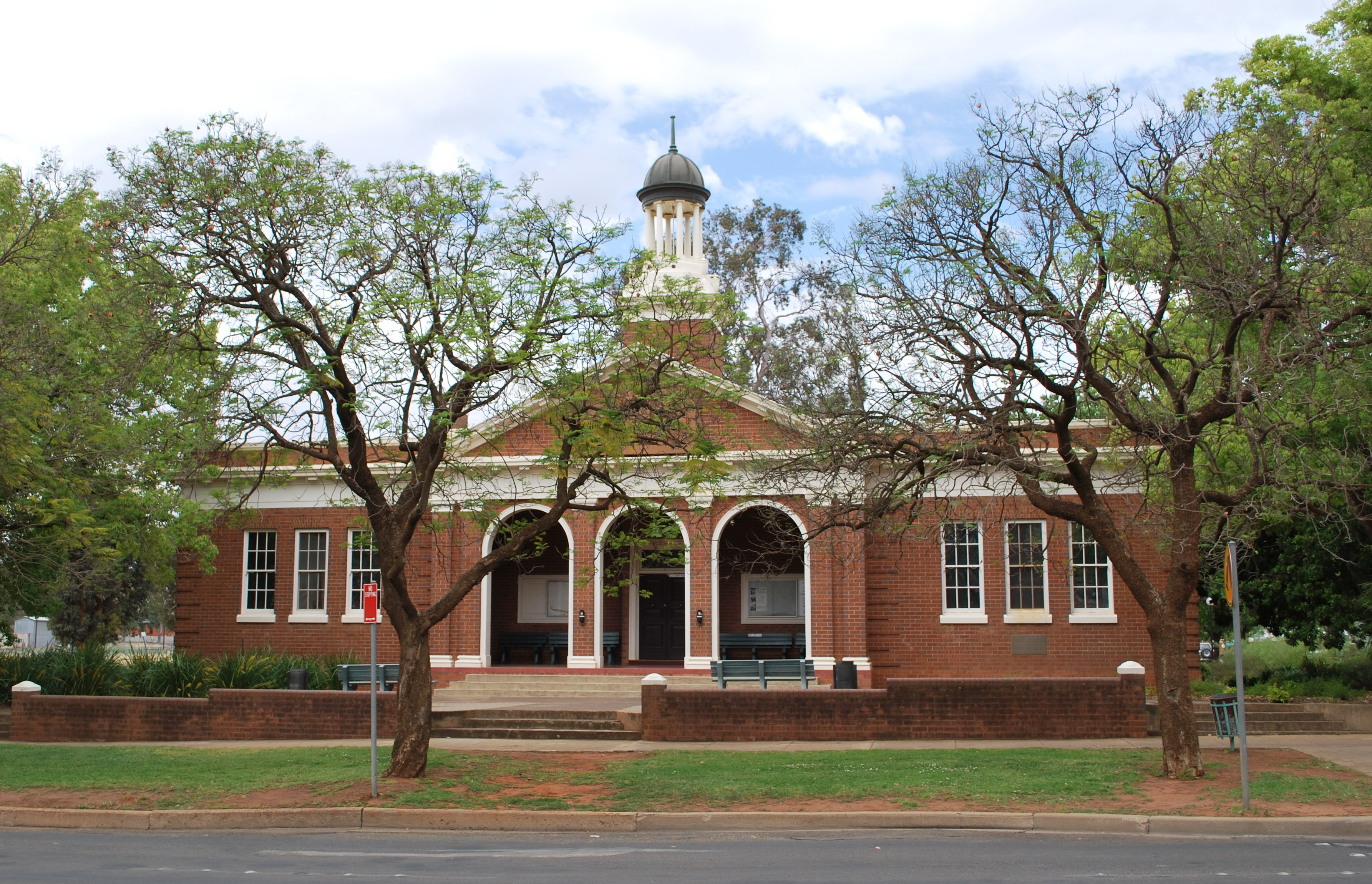 Court house in Griffith, New South Wales